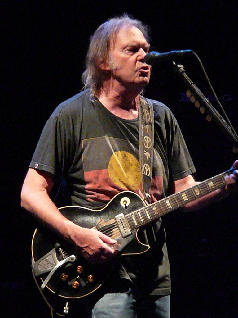 Neil Young at the Trent FM Arena in Nottingham.